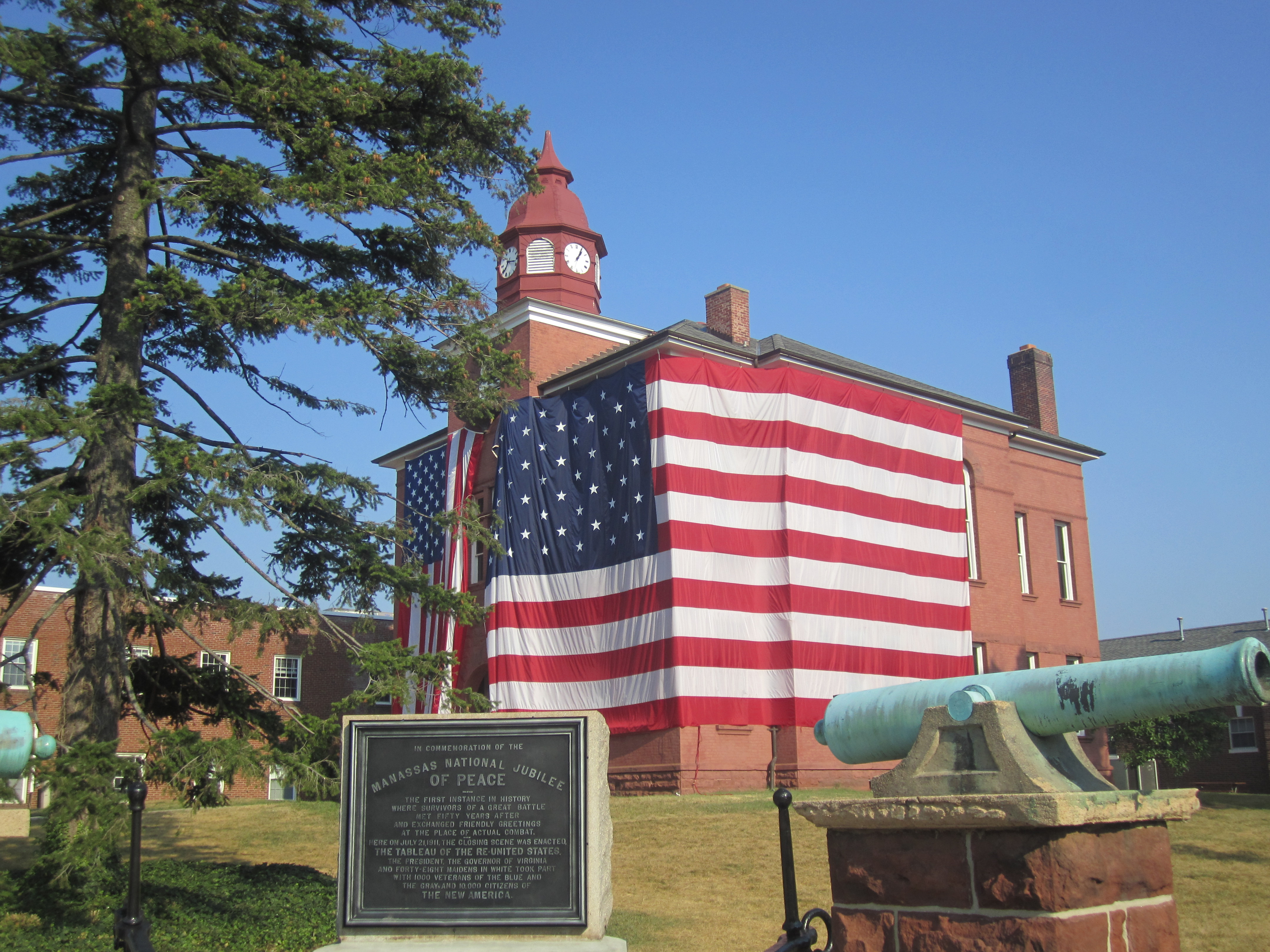 I took photo with Canon camera of Manassas National Jubilee of Peace.